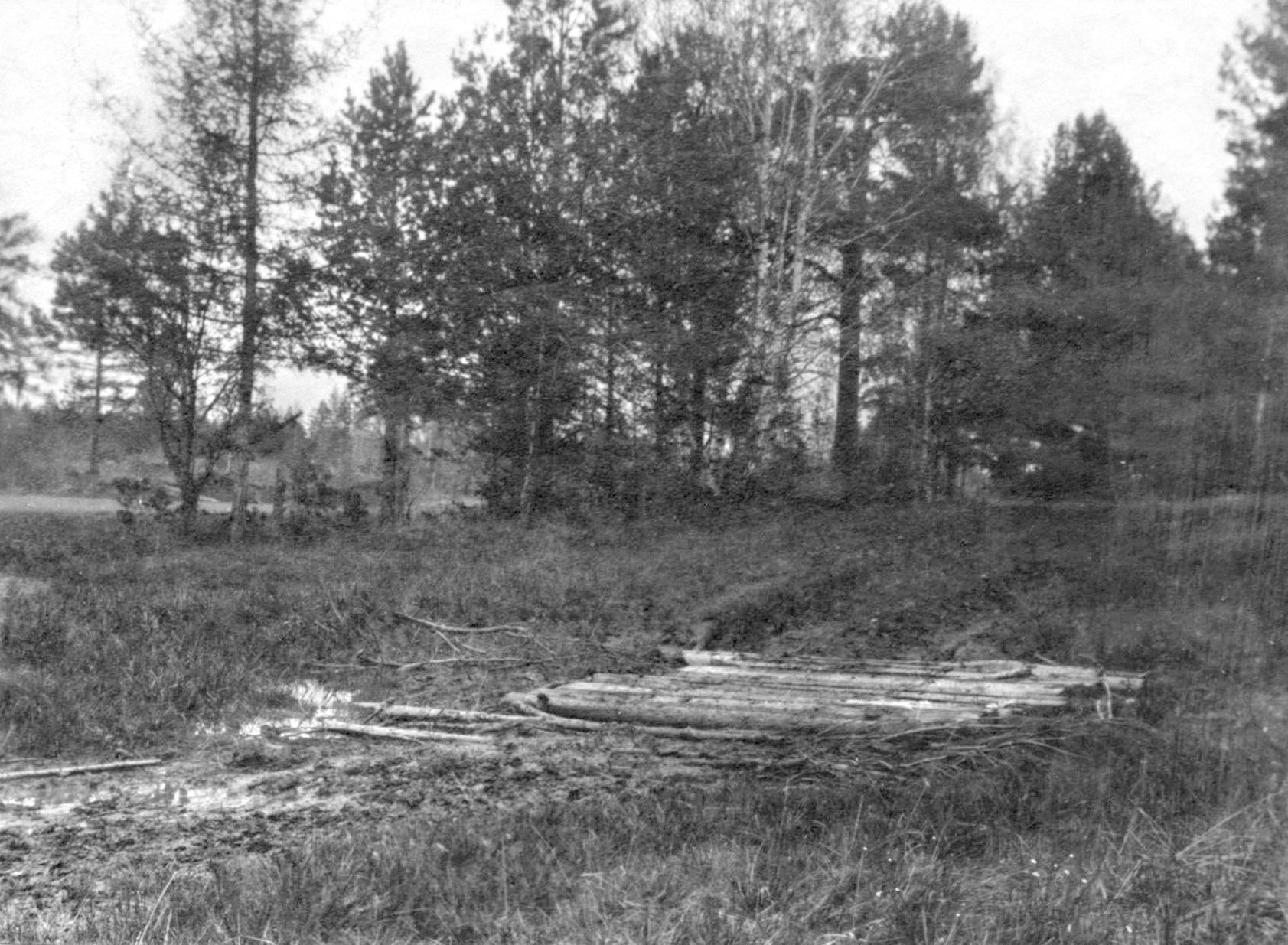 The not identified grave site of Nicholas II, his family and servants on Koptyaki Road beneath boles and railroad ties.